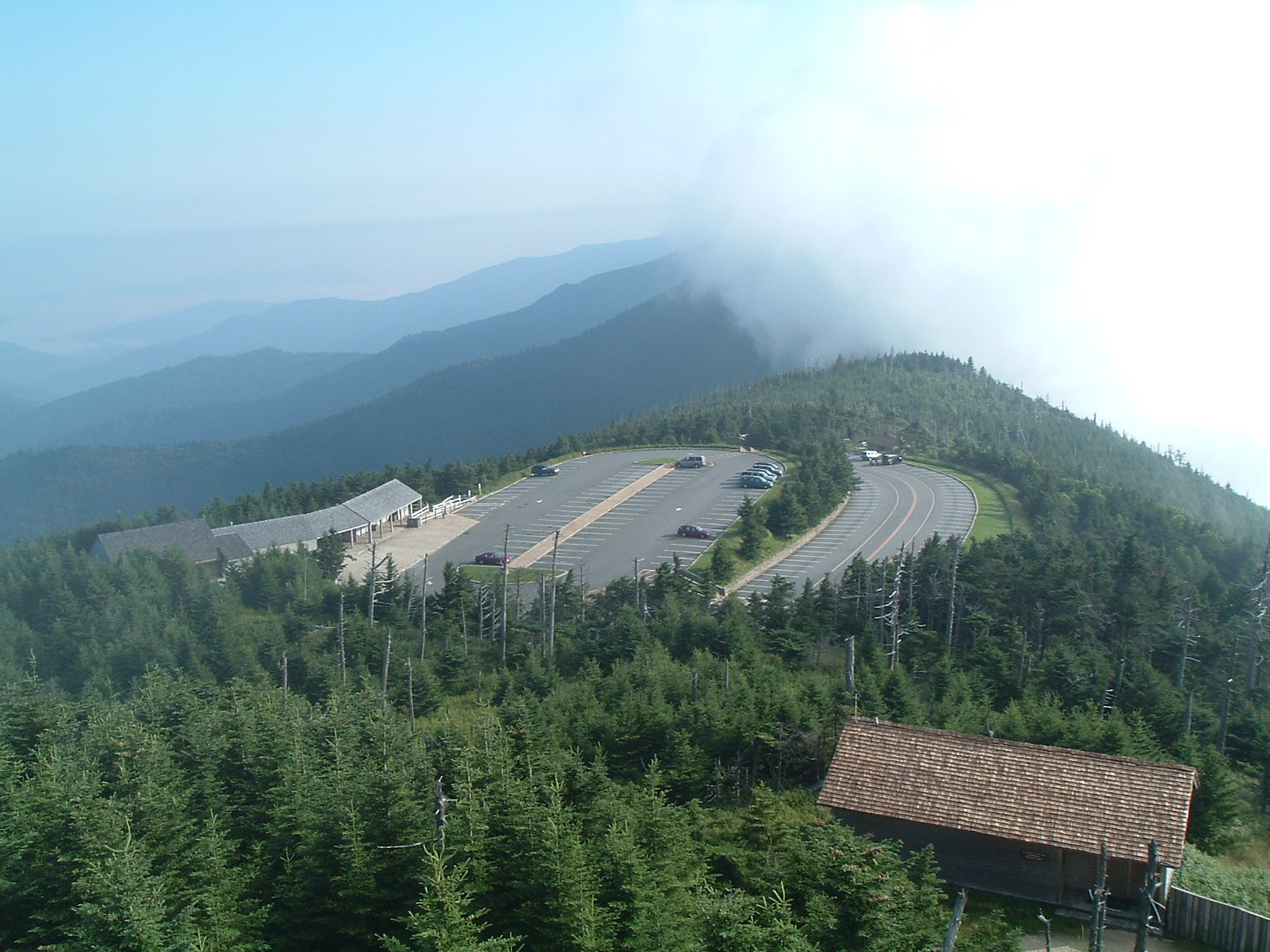 A view from the observation tower at Mount Mitchell.